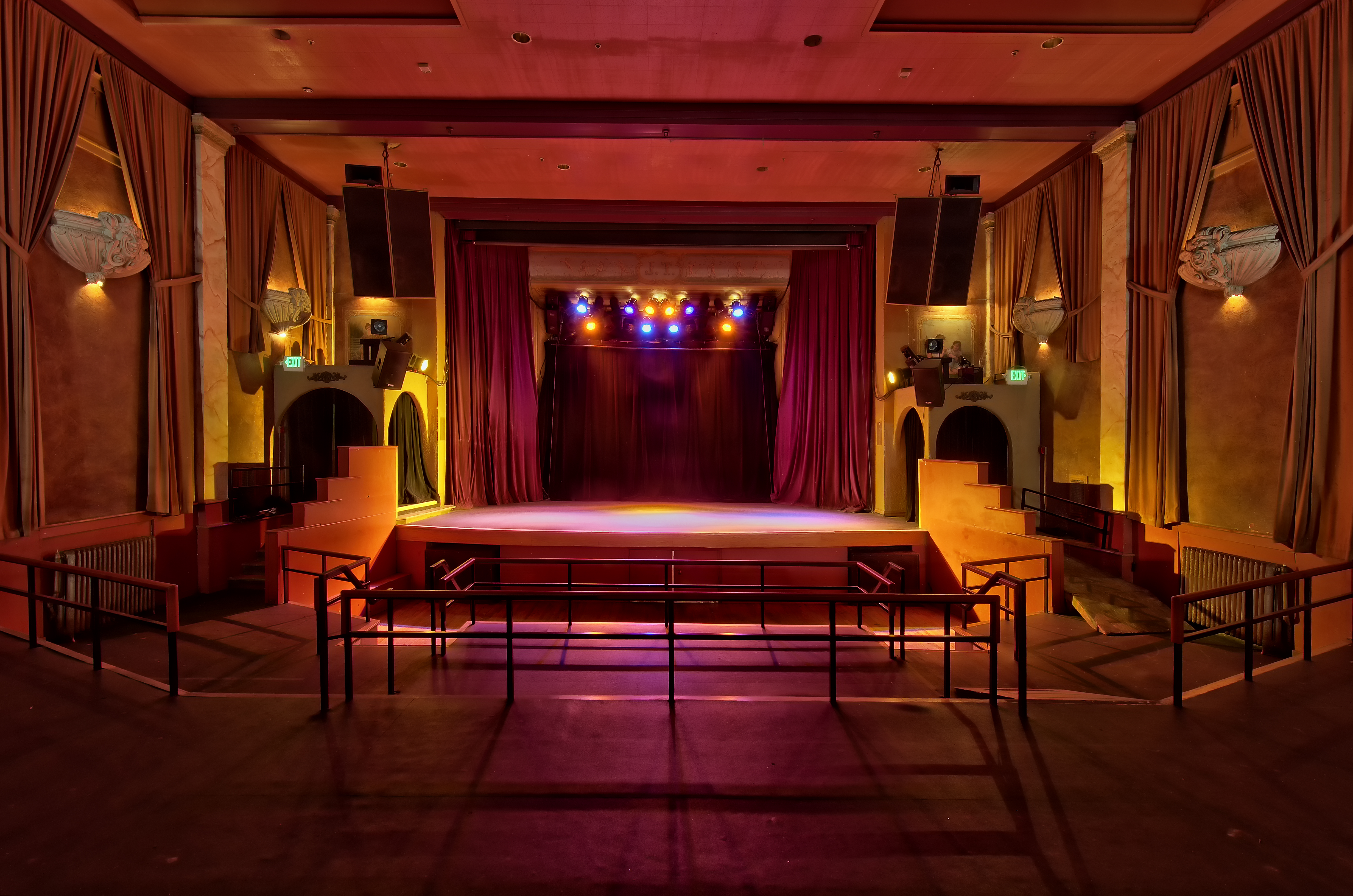 Inside Bluebird Theater